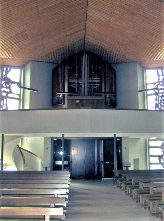 Former church of St. Josef in Mettlach-Keuchingen